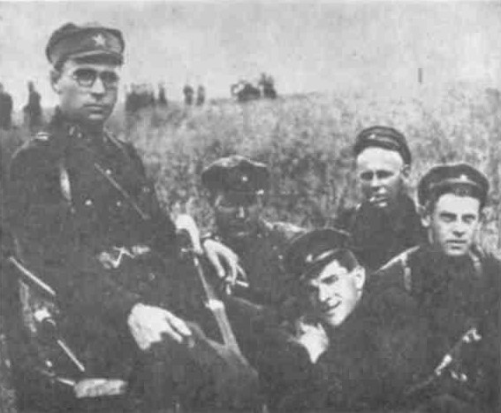 Soviet border guards in Transbaikalia. Left in the back is Toivo Vähä (1901-1984).